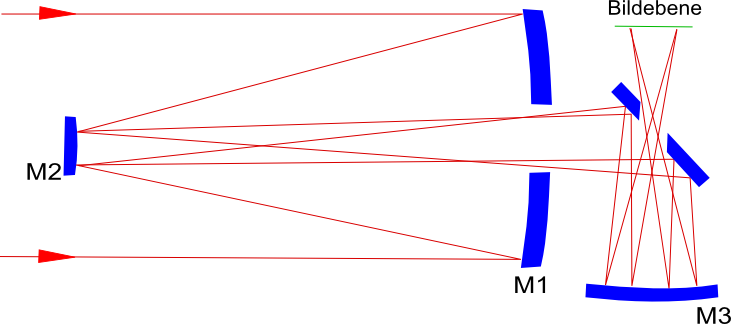 Light Path Korsch Telescop